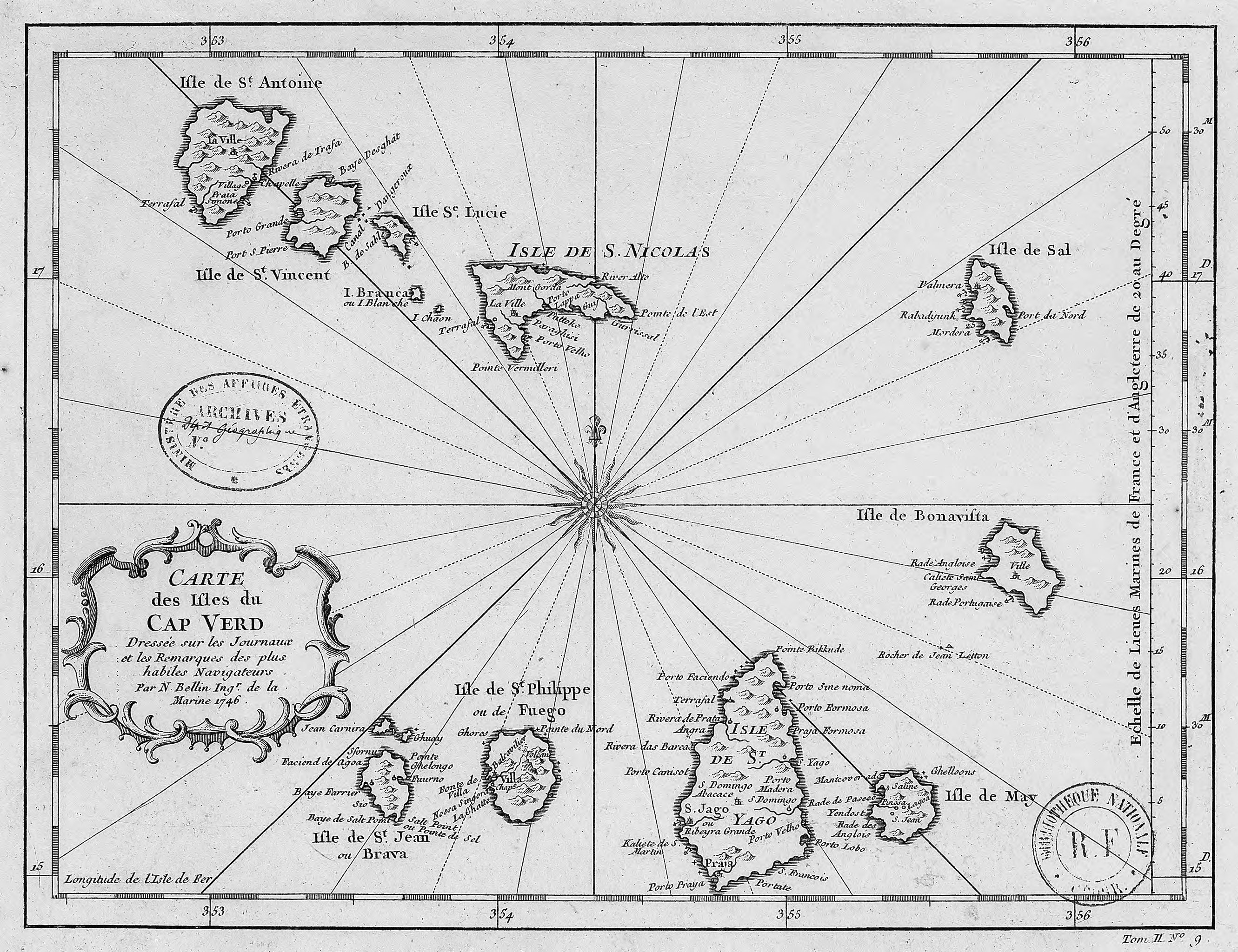 map of the islands of Cape Verde